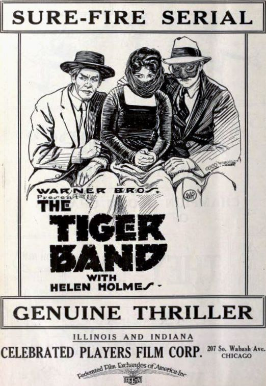 Advertisement for the American film serial The Tiger Band (1920) with Helen Holmes, on page 86 of the September 25, 1920 Exhibitors Herald.